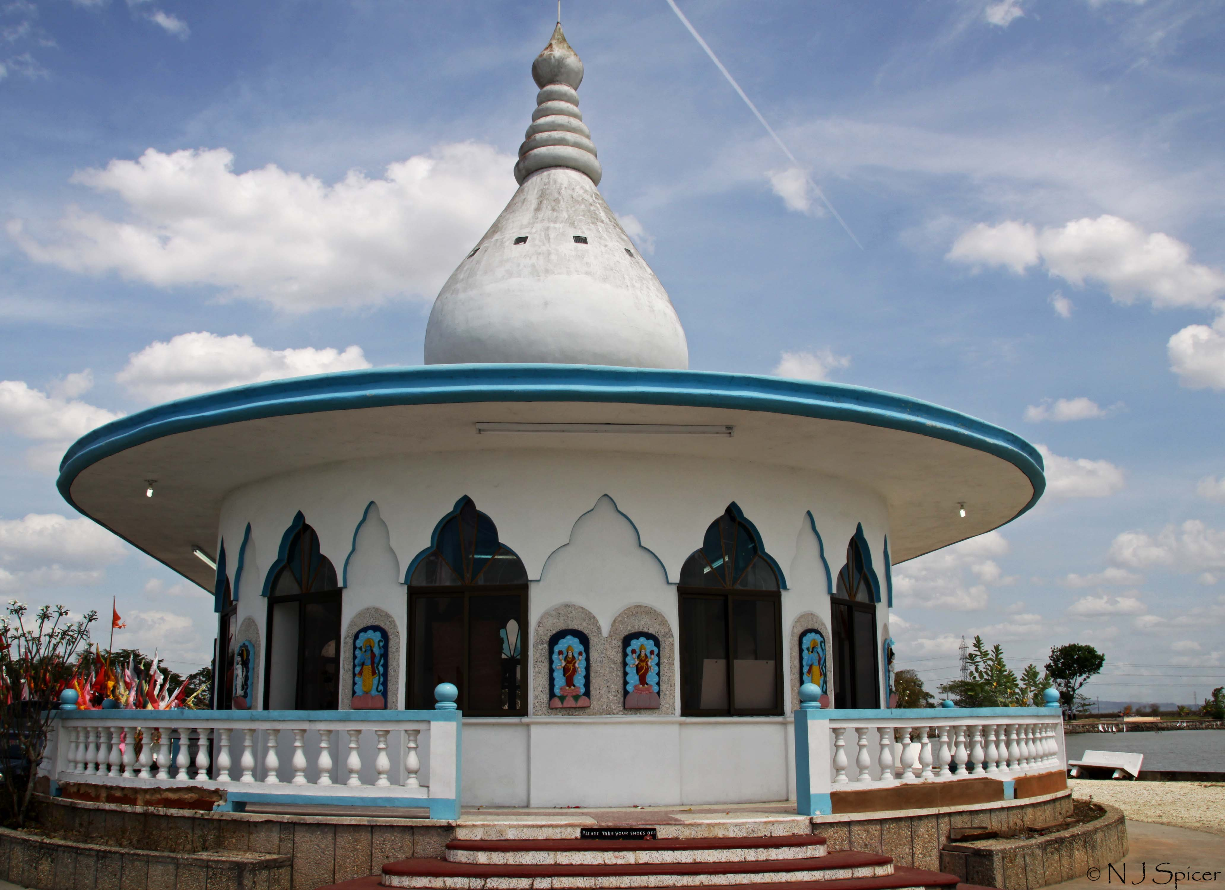 Waterloo temple of Trinidad and Tobago, is a story of human persistence. An Indo-Caribbean labourer, Seedas Sadhu, had constructed a first temple on the seashore in 1947. Soon thereafter, however, it was bulldozered and Sadhu sent to prison, because the temple was built on the lands of Caroni, the state sugar cane monopolist. Committed to his passion, Seedas Sadhu decided to built the temple in the sea. So after his prison term, this Indo-Caribbean set out to build the Waterloo Temple. It took him 25 years to build the temple, all by himself and his bicycle with which he transported the building materials. Symbols of his cultural faith decorate the walls of the Waterloo temple.